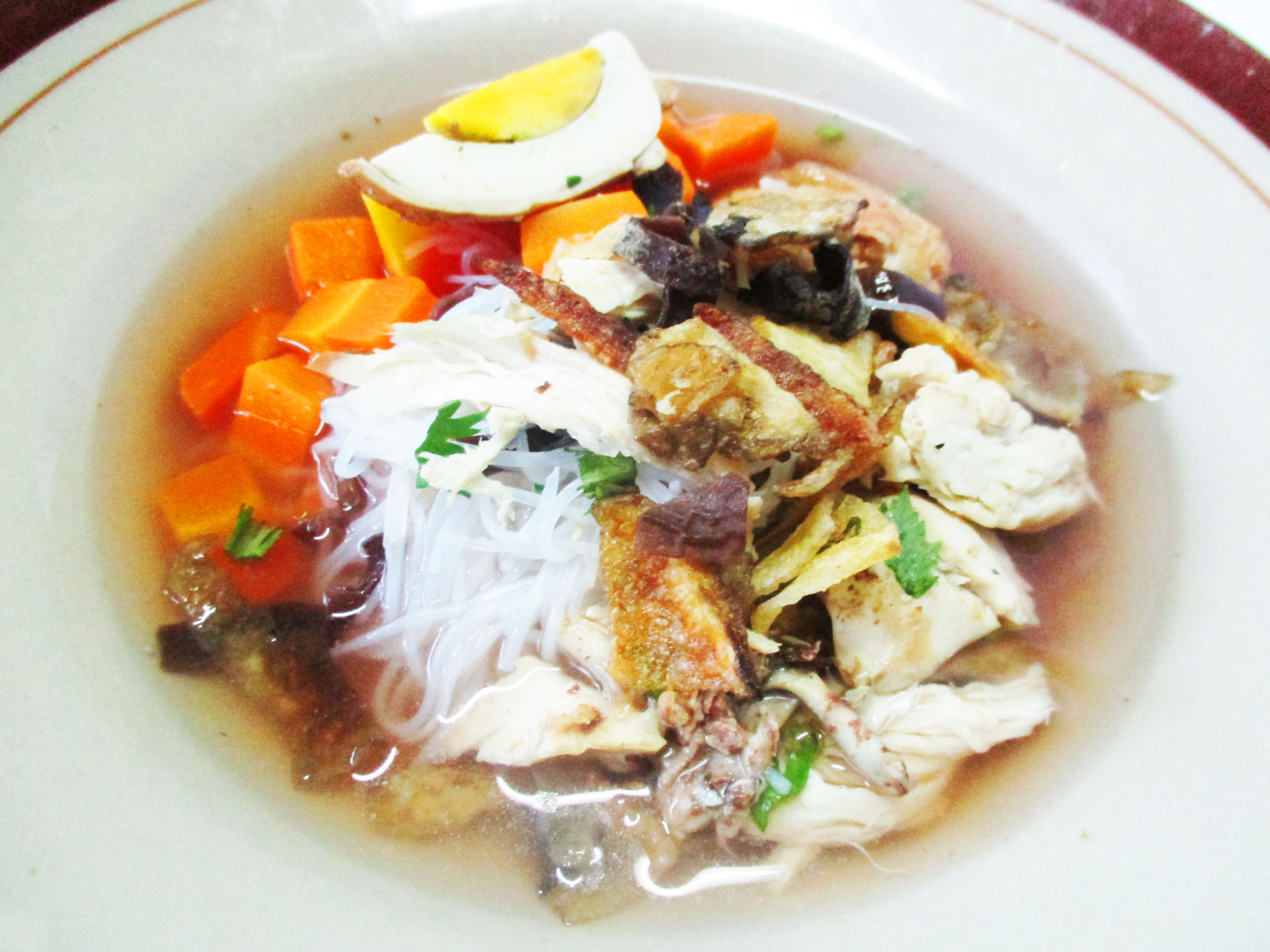 Timlo is a soup from Surakarta, Central Java, containing sliced chicken gizzard, sliced omelette rolls, slices of sausage solo, mihun, pindang eggs and shredded fried chicken. The sauce is clear, runny and fresh.